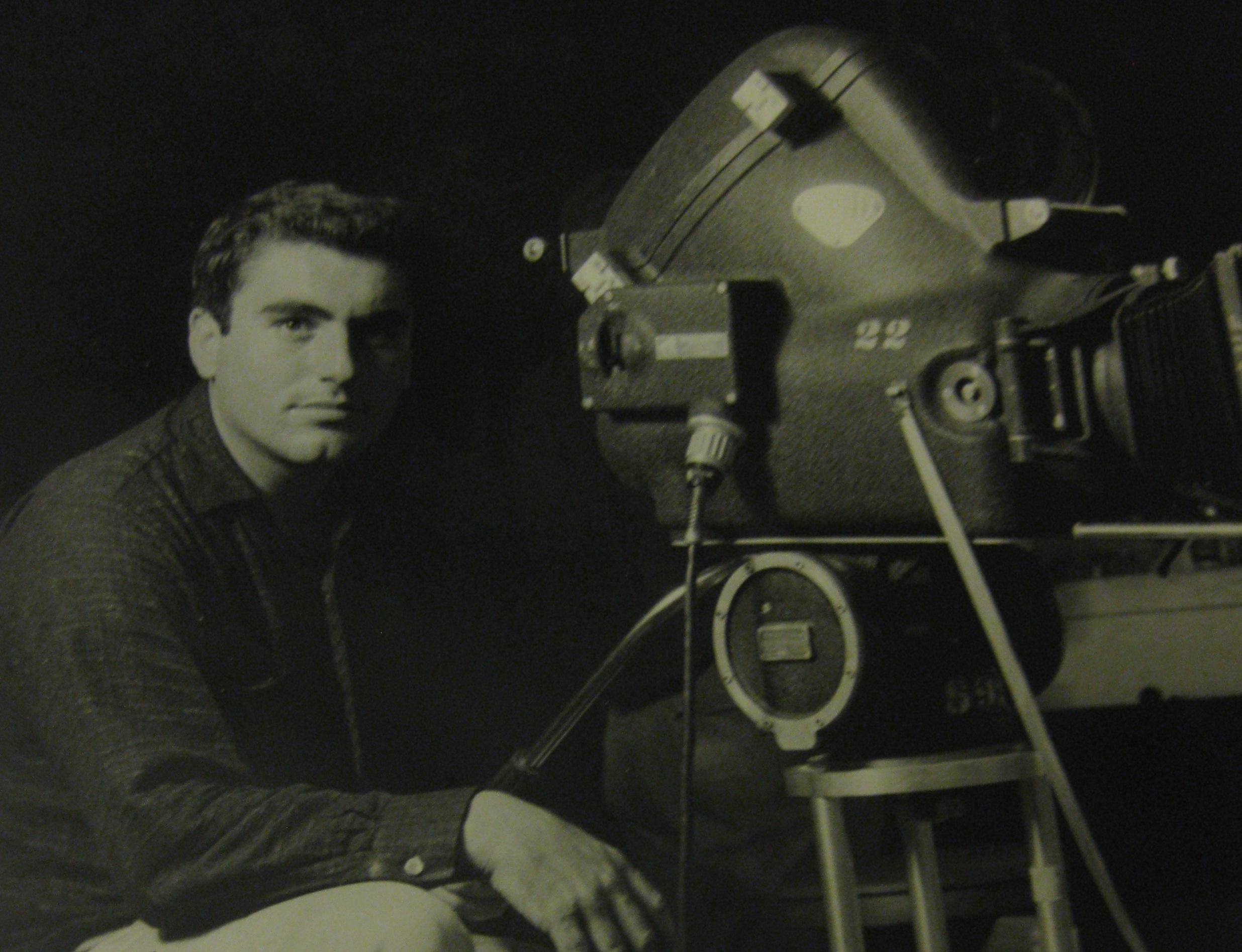 Cameraman Earl "Buddy" Seely Noonan behind the camera, KCOP-TV studios, Los Angeles, CA